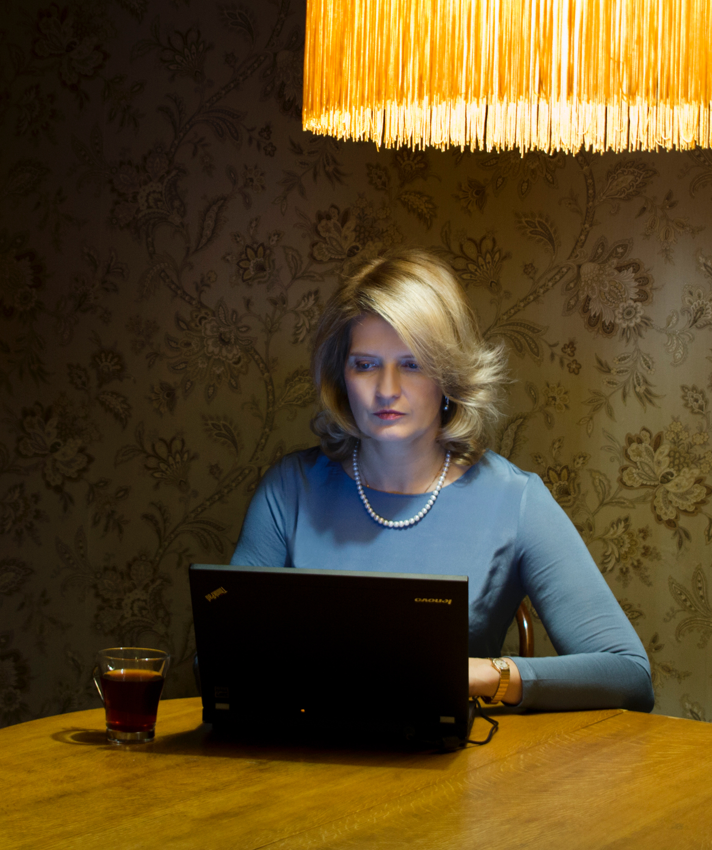 Natalya Kaspersky/Kasperskaya, owner and CEO of 'InfoWatch' group of companies, focused on developing solutions to protect corporate confidential data from leakage. The former Chairwoman of Russian antivirus security software company Kaspersky Lab.